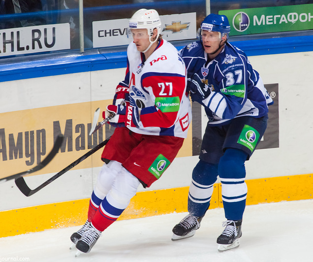 Amur Khabarovsk forward Mika Pyörälä (in blue) and Lokomotiv Yaroslavl defenceman Staffan Kronwall (in white) during KHL game on September 8, 2012.